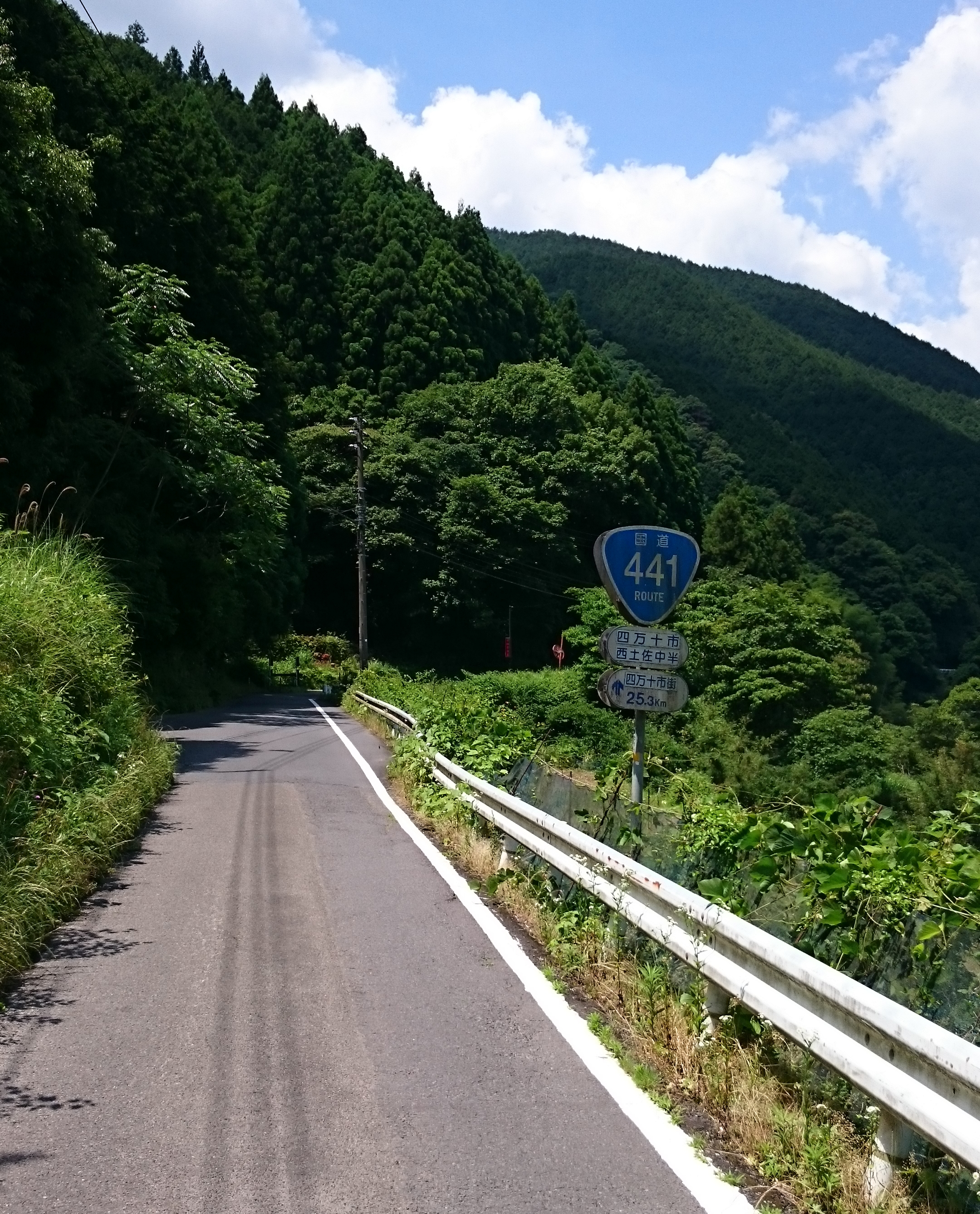 Route441 nishiTosa-nakaba, Shimanto City, Kochi , Japan.